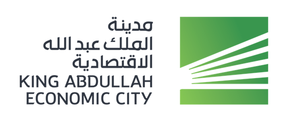 King abdullah economic city official logo